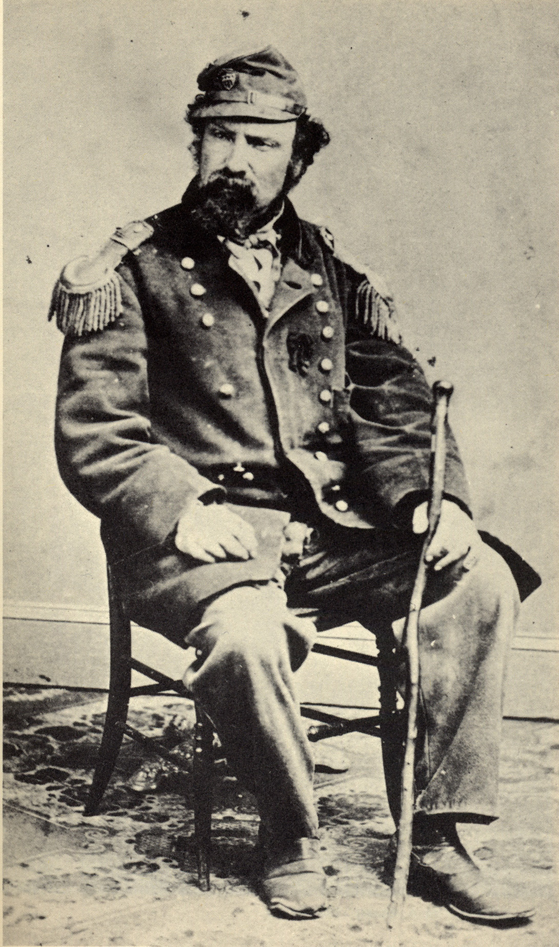 Image of His Imperial Majesty Emperor Norton I, also known as Joshua A Norton.